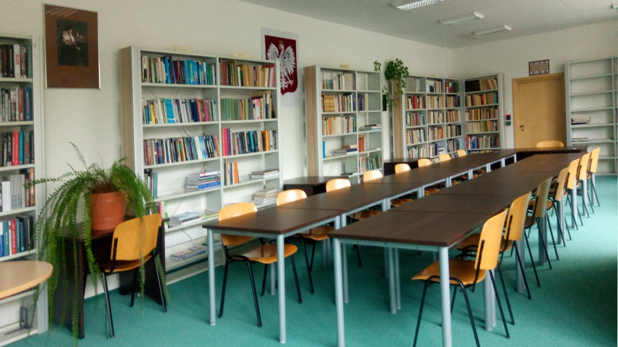 Reading Room - Branch of the Main Library of the Cardinal Stefan Wyszynski University in Warsaw